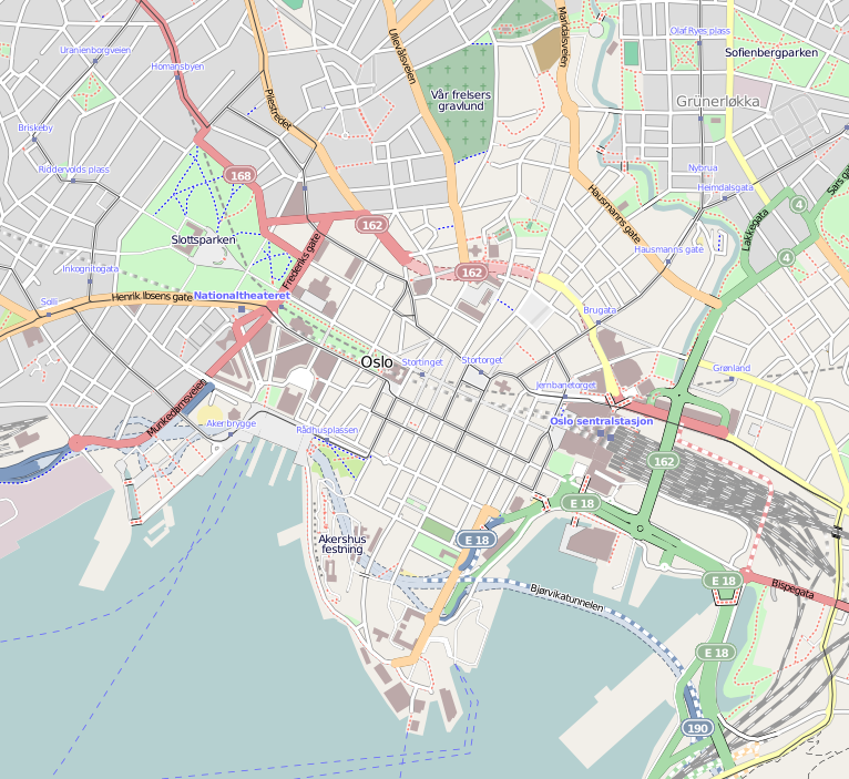 Map of Oslo Geographic limits of the map: N: 59.9346° S: 59.9002° W: 10.7156° E: 10.7666°